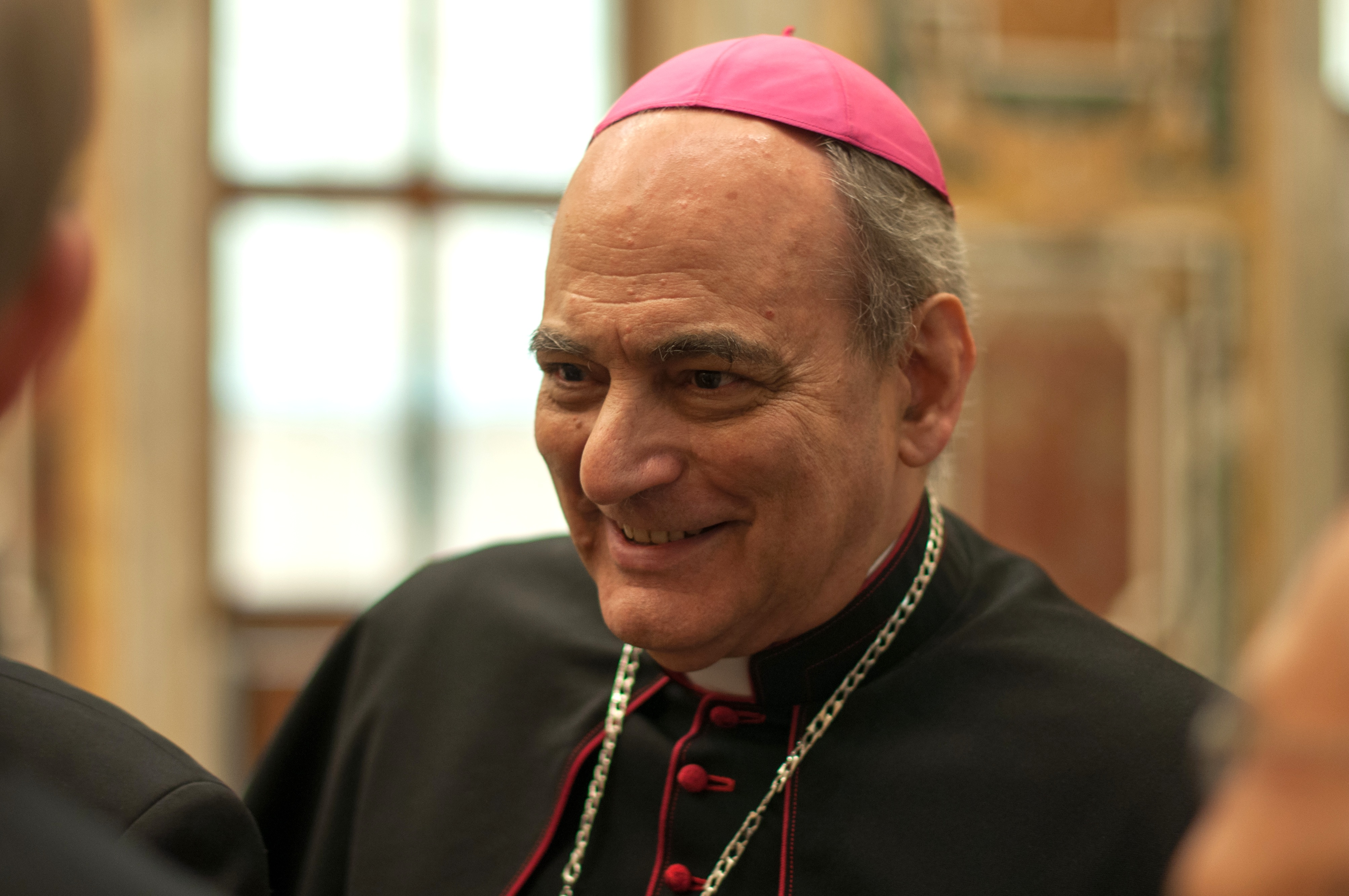 Msgr Marcelo Sánchez Sorondo, Chancellor of the PAS and PASS